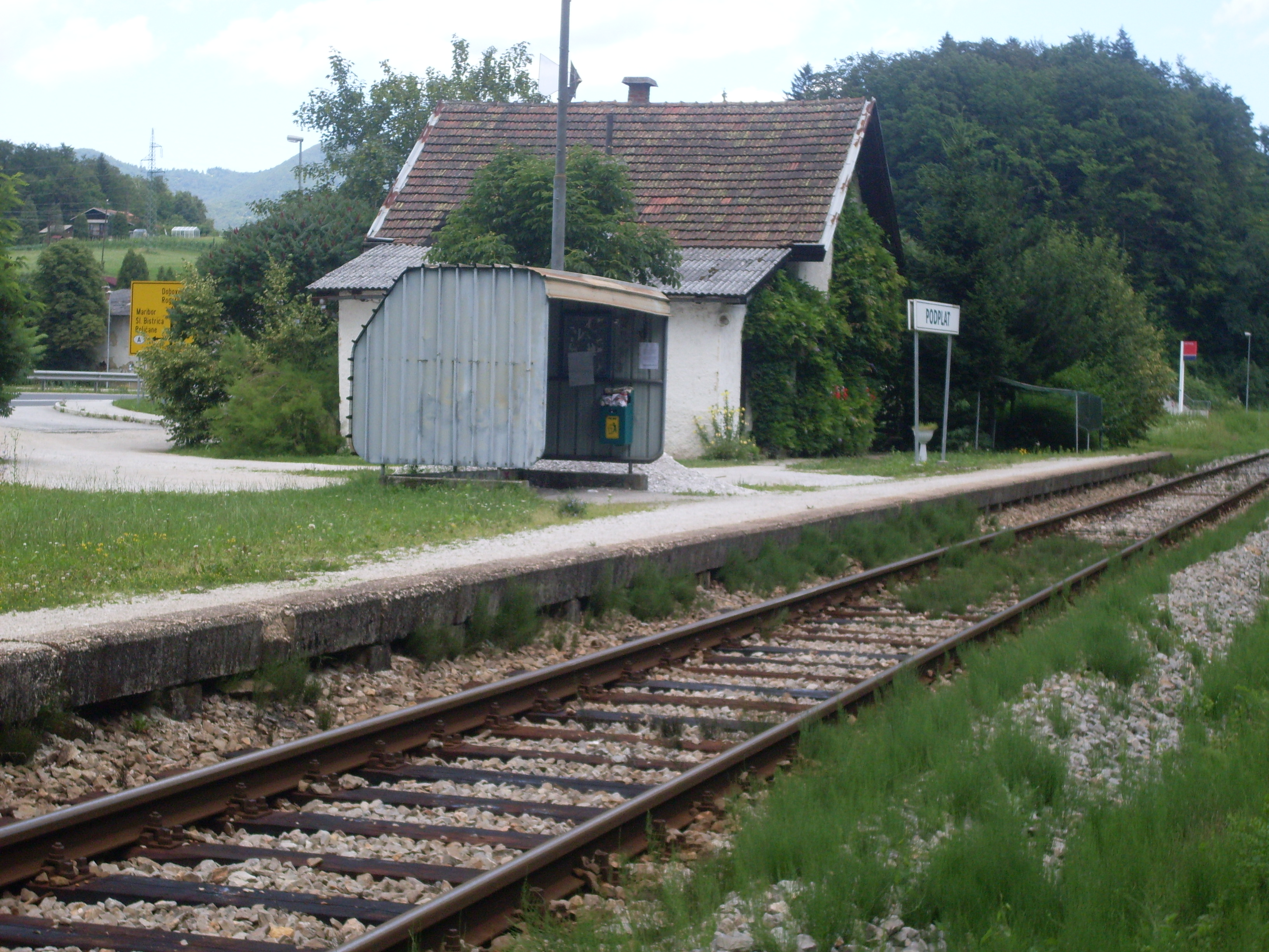 Railway halt in PodplatSlovenščina: Železniško postajališče Podplat